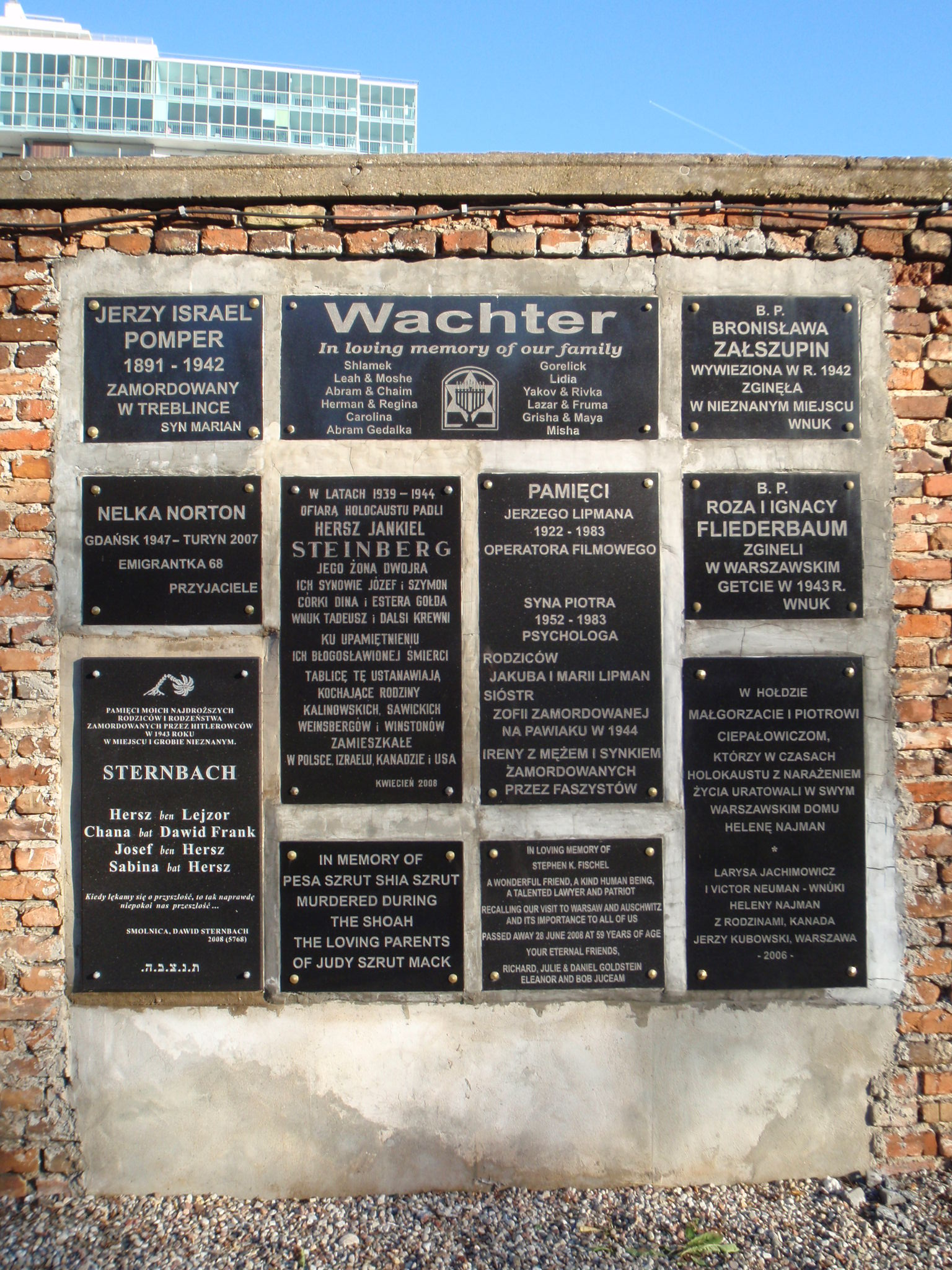 Commemorative plaques on the wall of Jewish cemetery in Warsaw